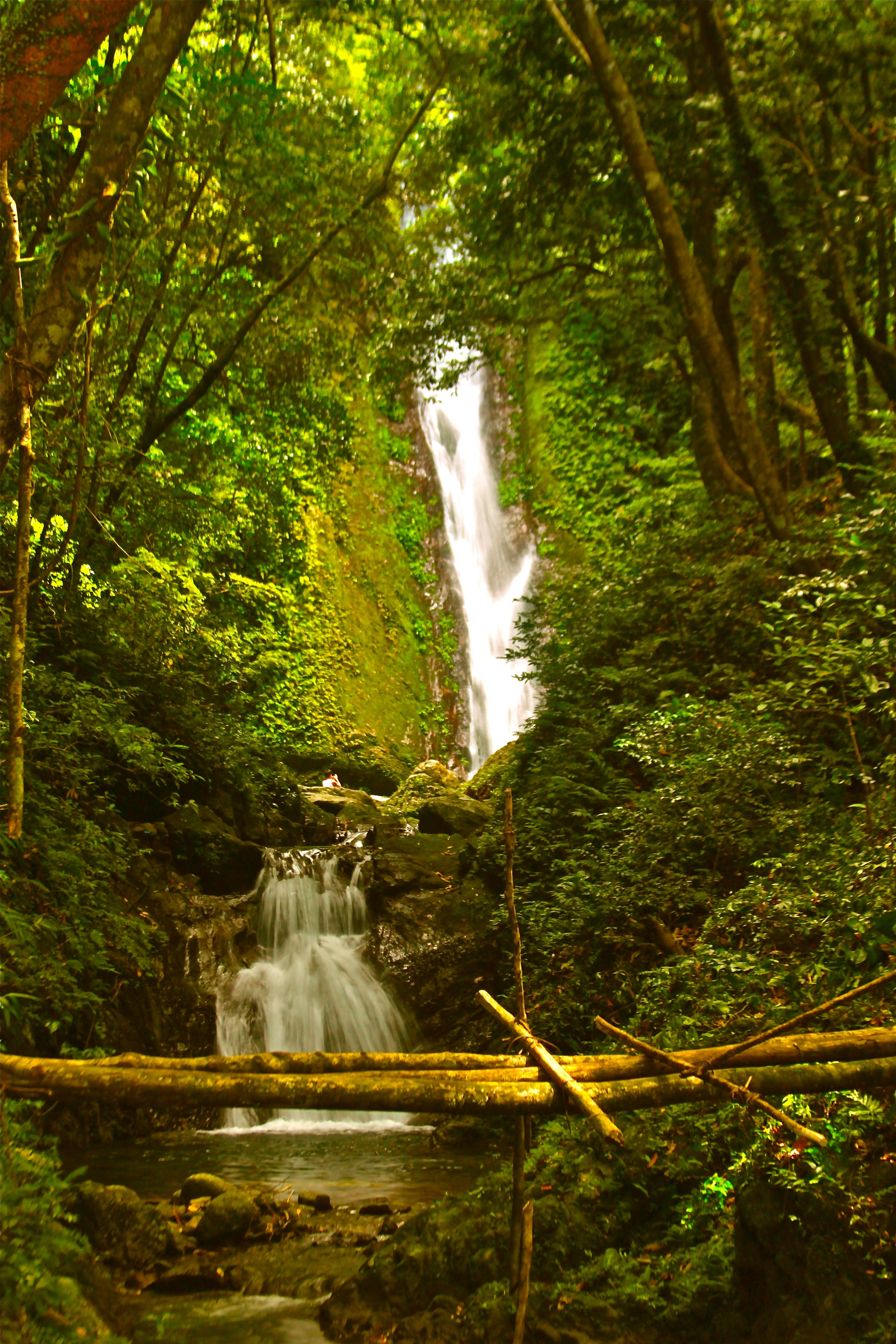 Kabigan Waterfalls, Pagudpud, Ilocos Norte